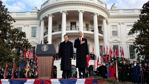 Presidents Barack Obama and Hu Jintao, respectively of the United States and China, at an official arrival ceremony in front of the White House.